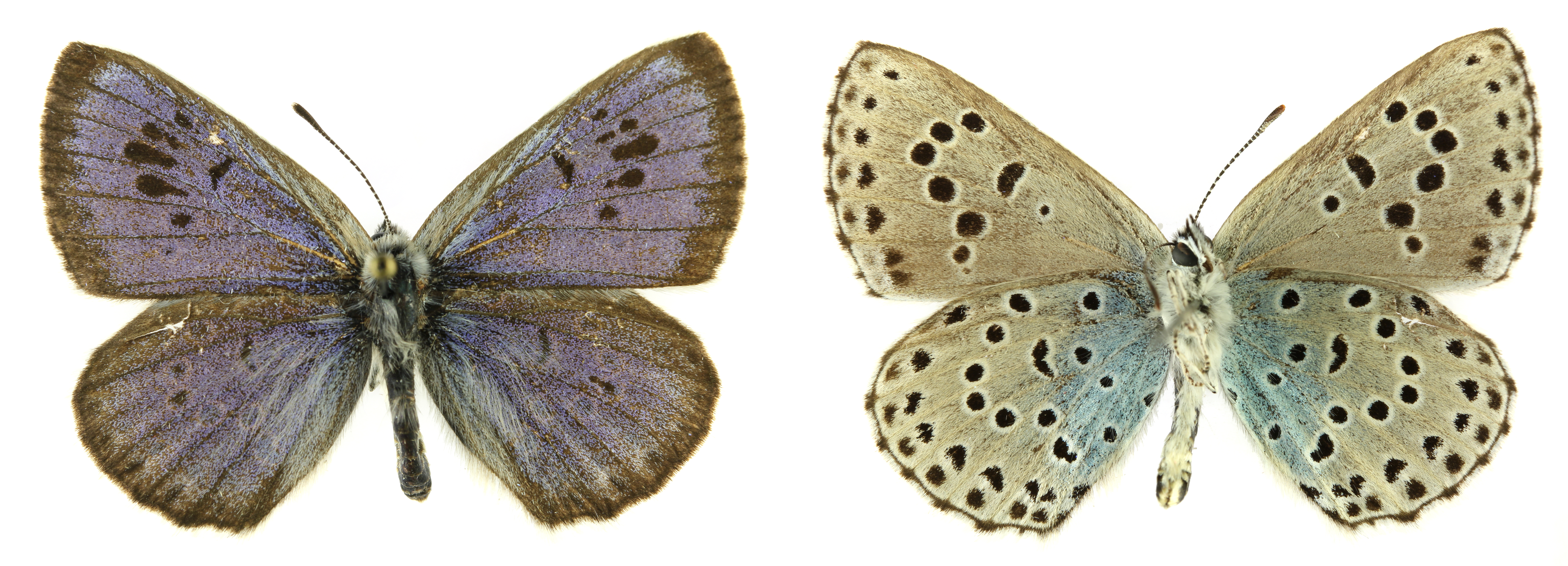 Maculinea arion insect collections SLU, Uppsala